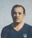 Juan José Tramutola, coach of the Argentine football team 1929 -- 30